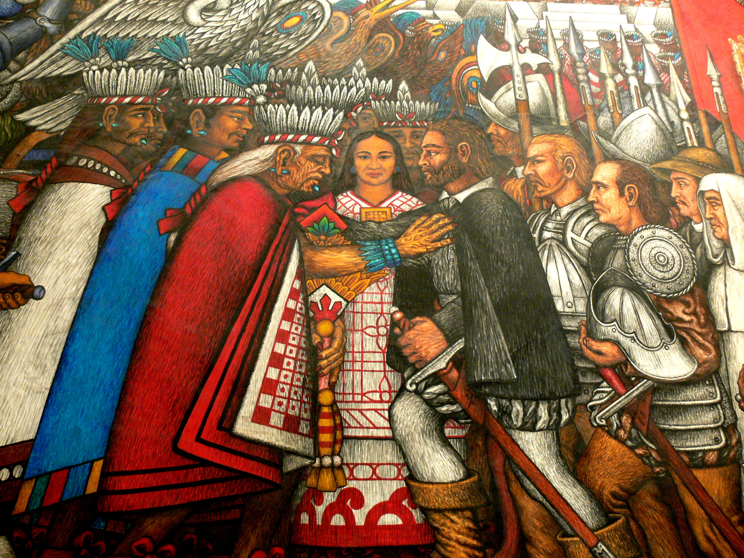 Tlaxcala city. Palacio de Gobierno: Murals by Desiderio Hernandez Xochitiotzin - Discussions between Taxcaltecans and Hernan Cortes.